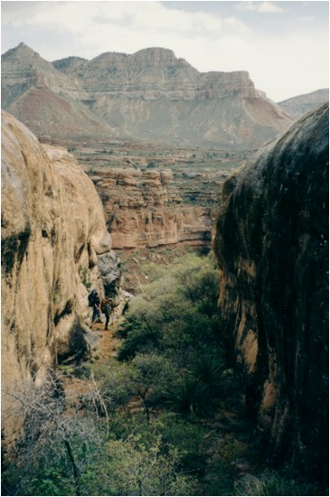 The Kanab Creek within Kanab Canyon in northern Arizona, United States. Kanab Canyon is the Canyon of Kanab Creek, a north, due-south flowing tributary to the Colorado River. This image shows the Canyon just north of Grand Canyon National Park inside Kaibab National Forest.